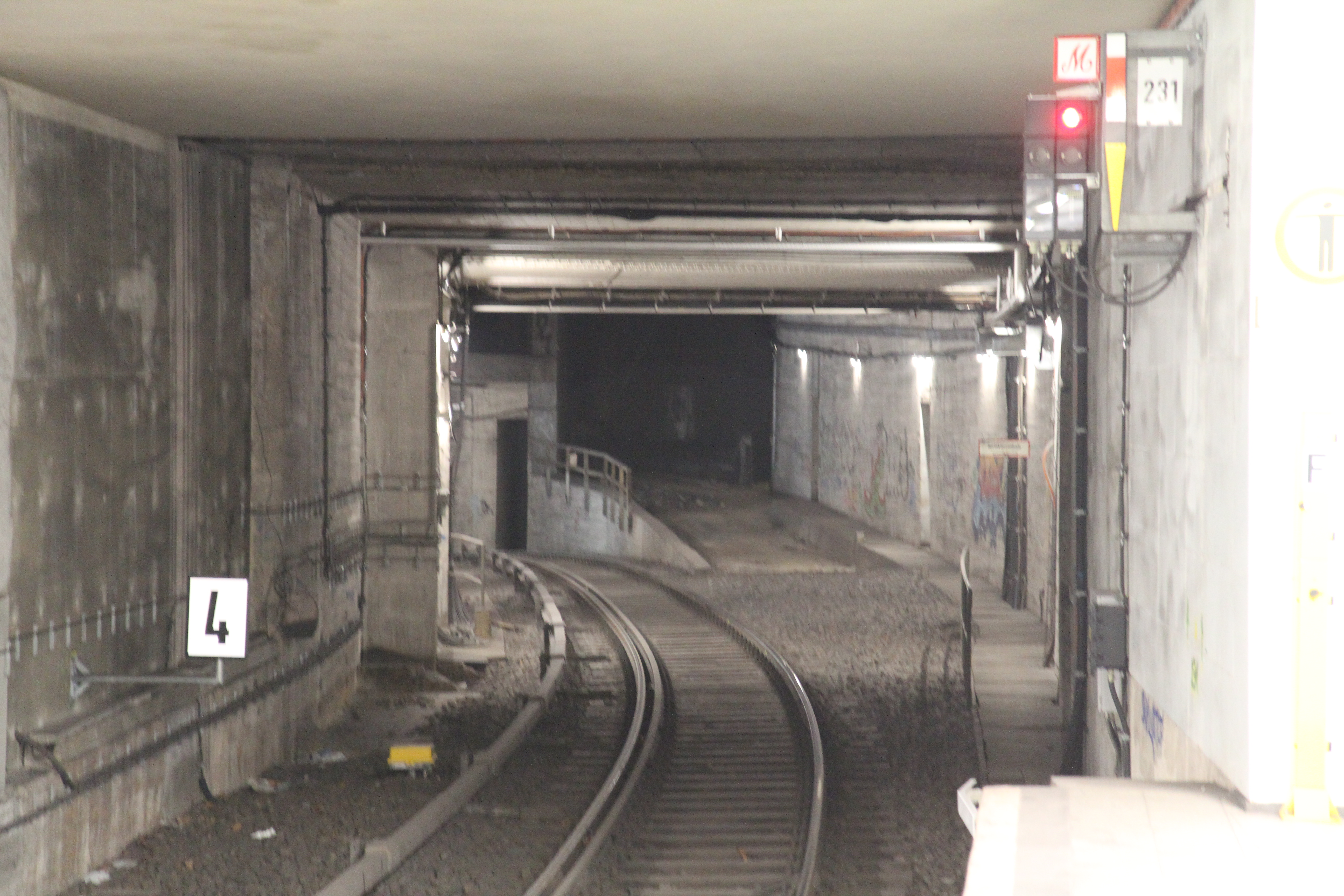 Looking into the tunnel at the southern end of the Potsdamer Platz station of the Berlin S-Bahn, seeing at the right the ramp prepared for a junction leading toward Gleisdreieck